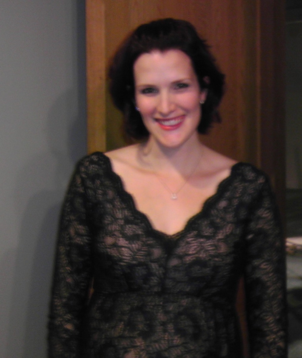 Valérie Milot photographed in Montreal, Quebec, Canada inside Chapelle historique du Bon-Pasteur.